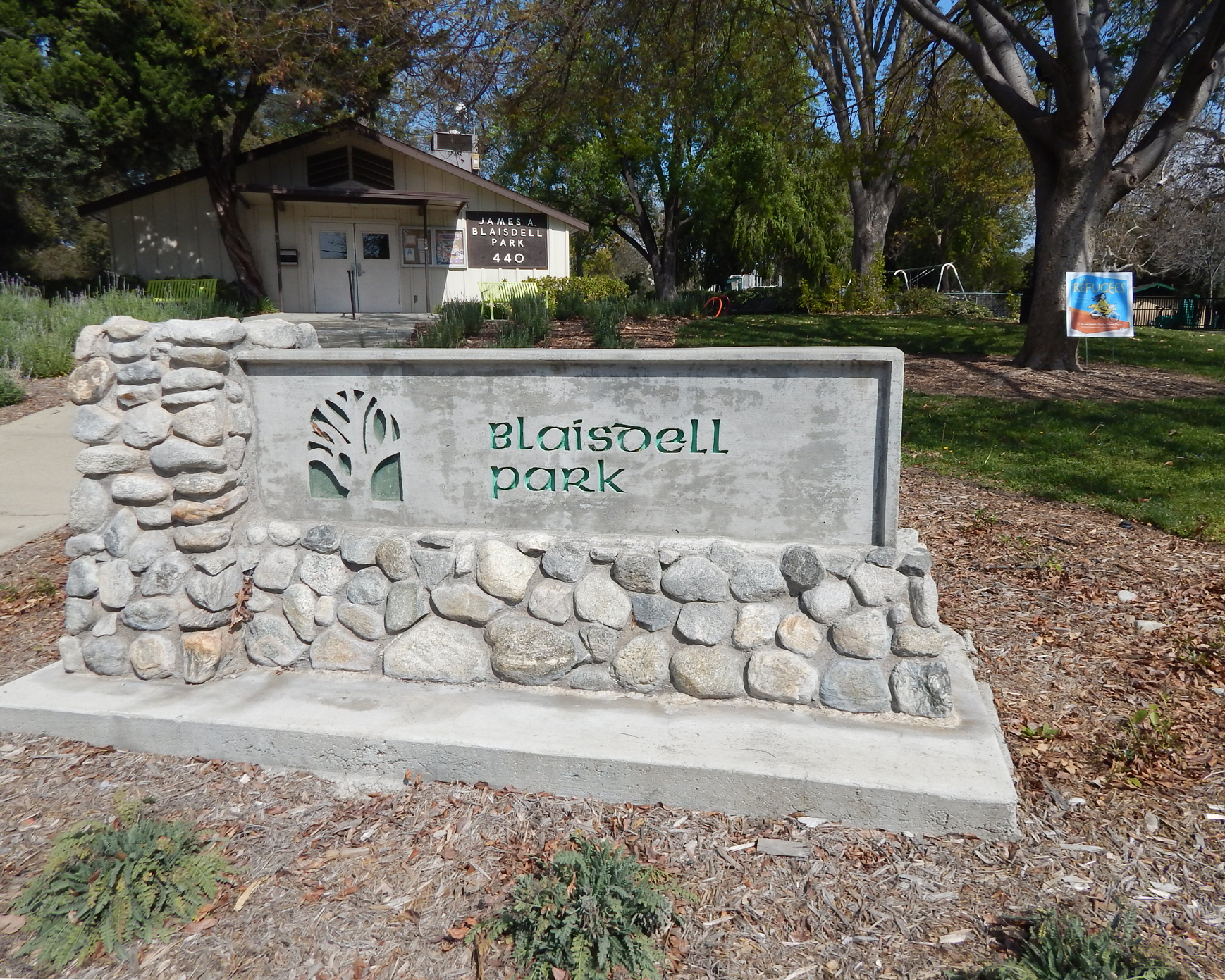 James A. Blaisdell Park and Senior Center, Claremont, California